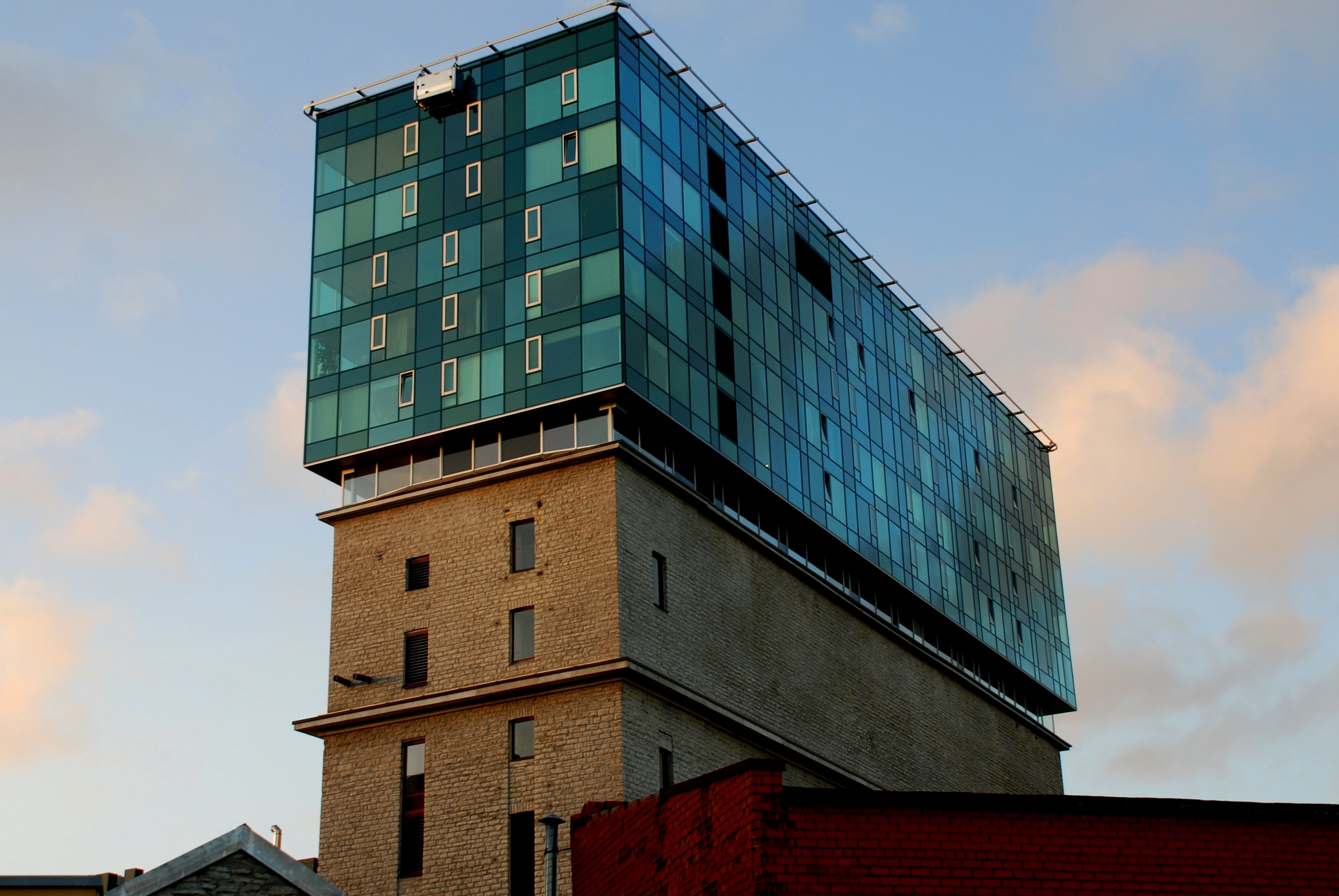 Fahle House / old celluloze factory reconstruction, Tallinn, Estonia.